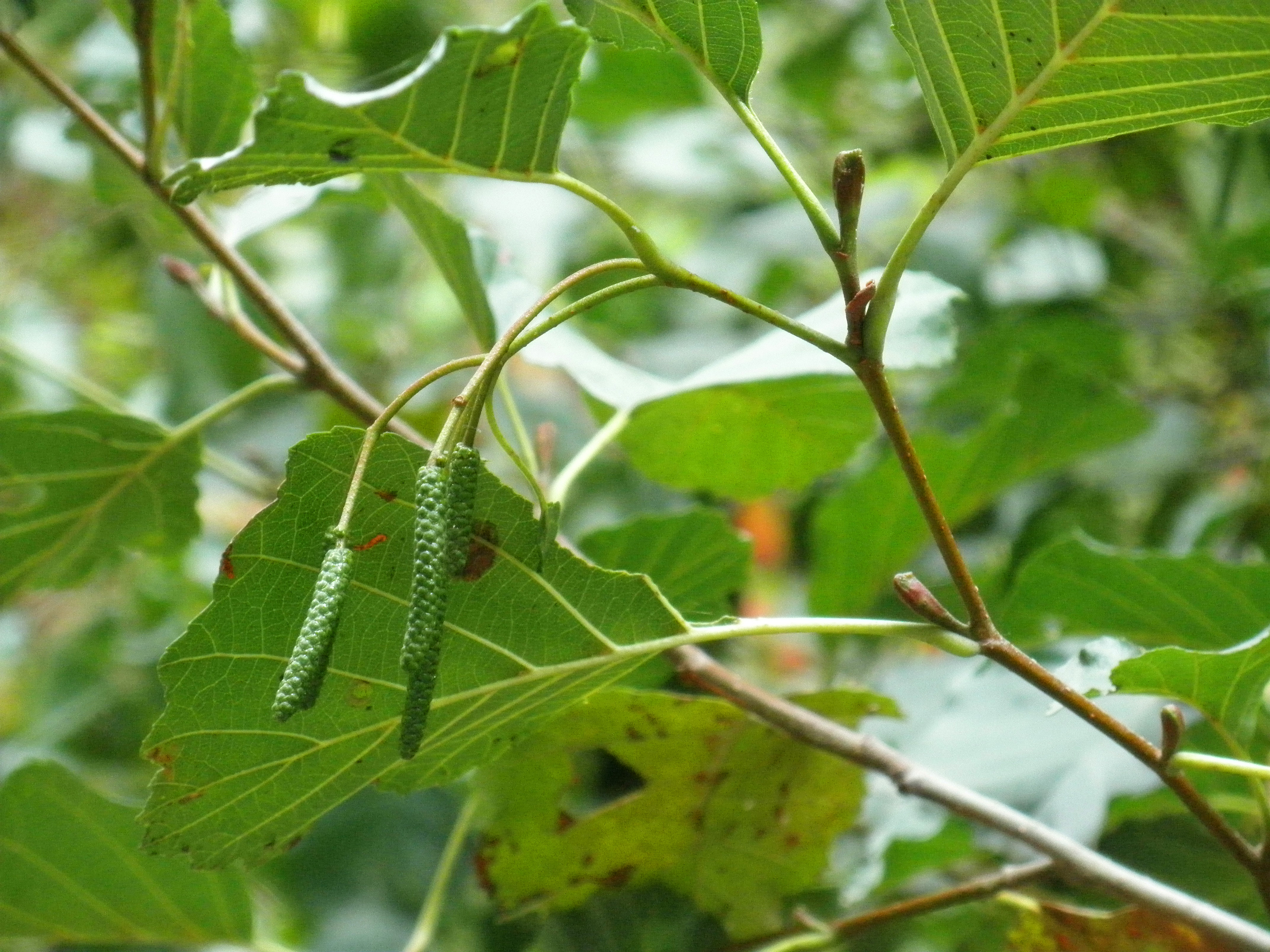 Alnus glutinosa male aglet, Sierra Madrona, Spain